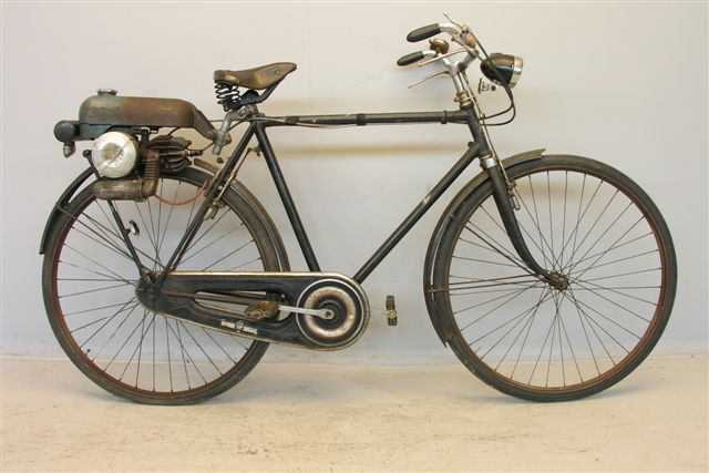 Bianchi Moped 1950